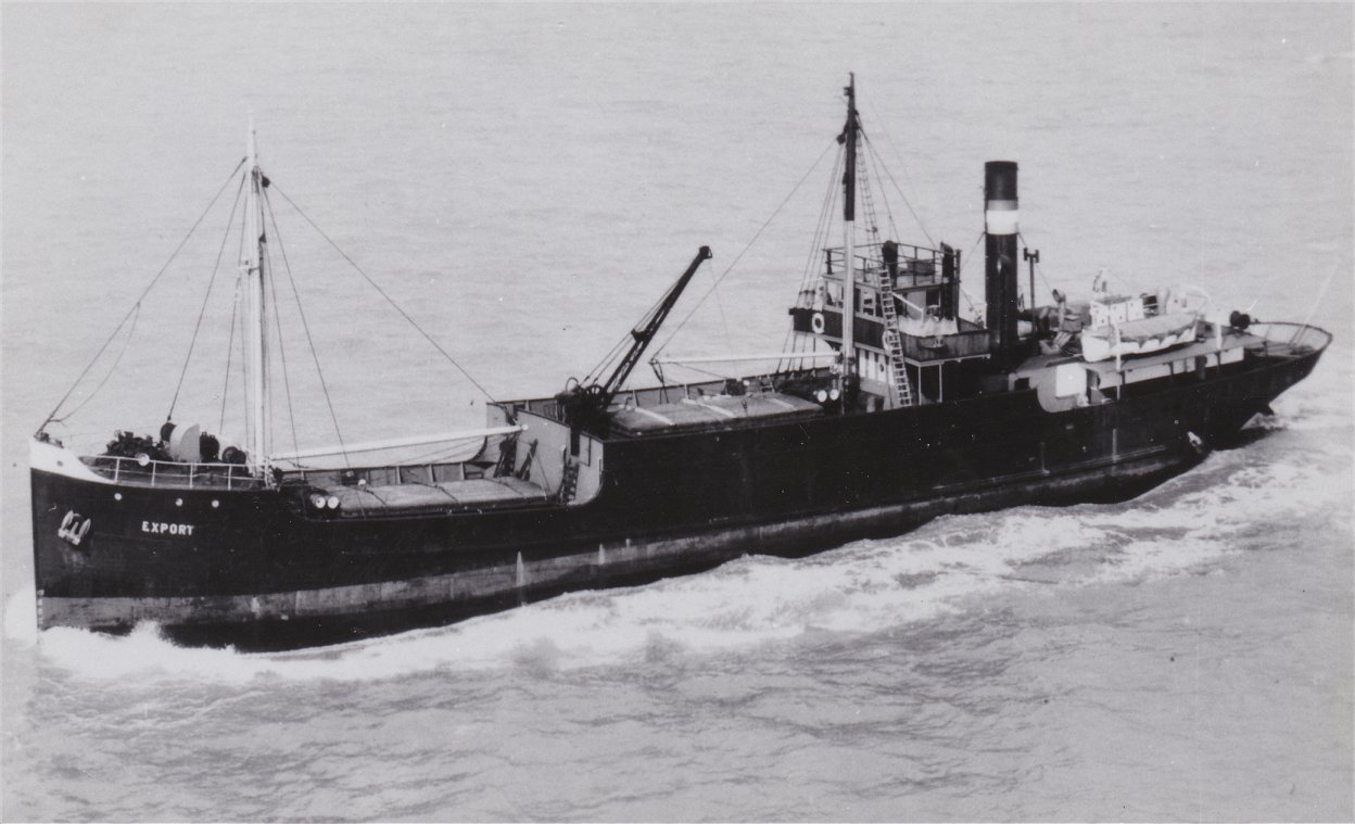 SS. Export (1918-1954)